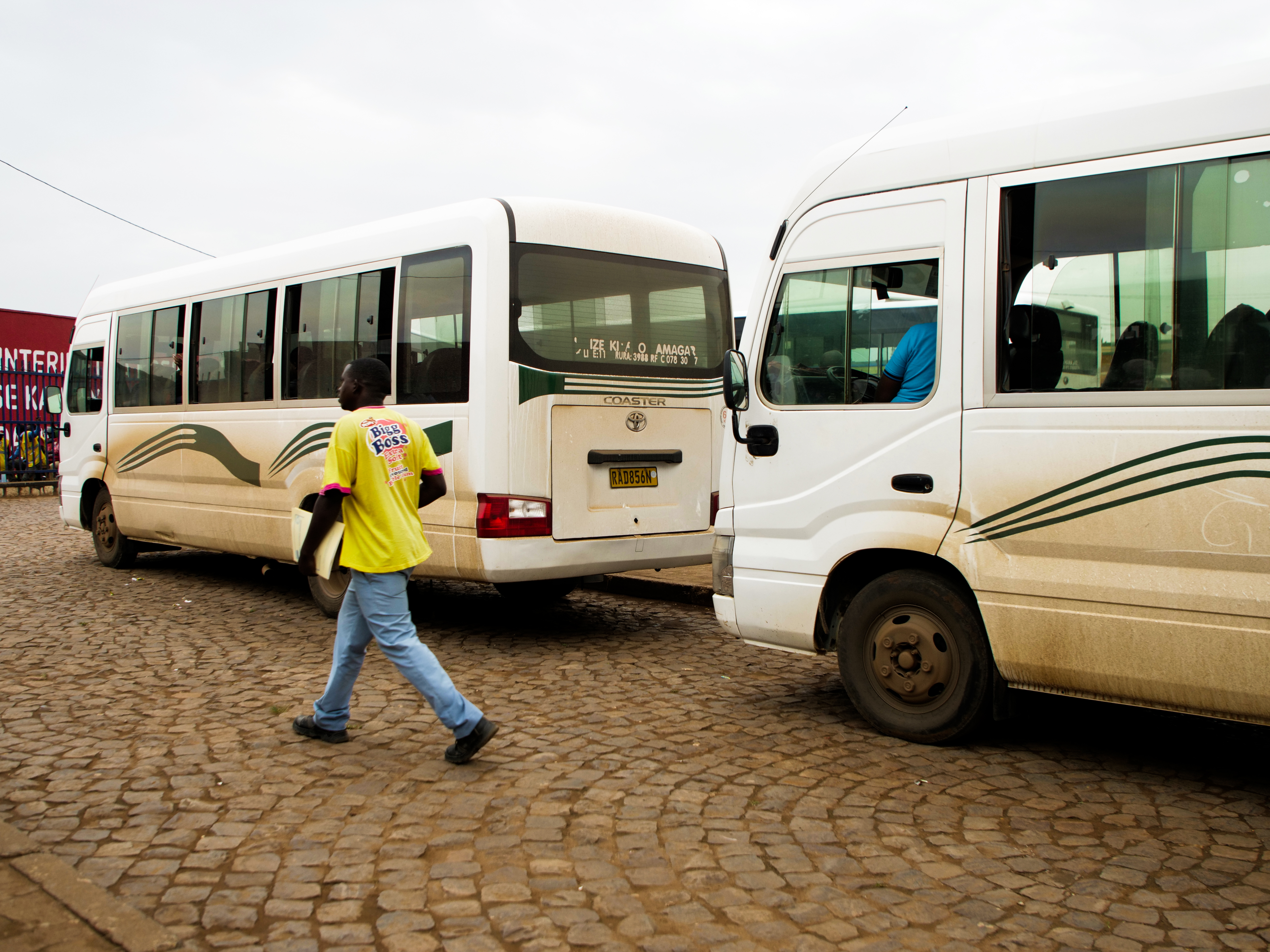 This is an image with the theme "Africa on the Move or Transport" from: Rwanda